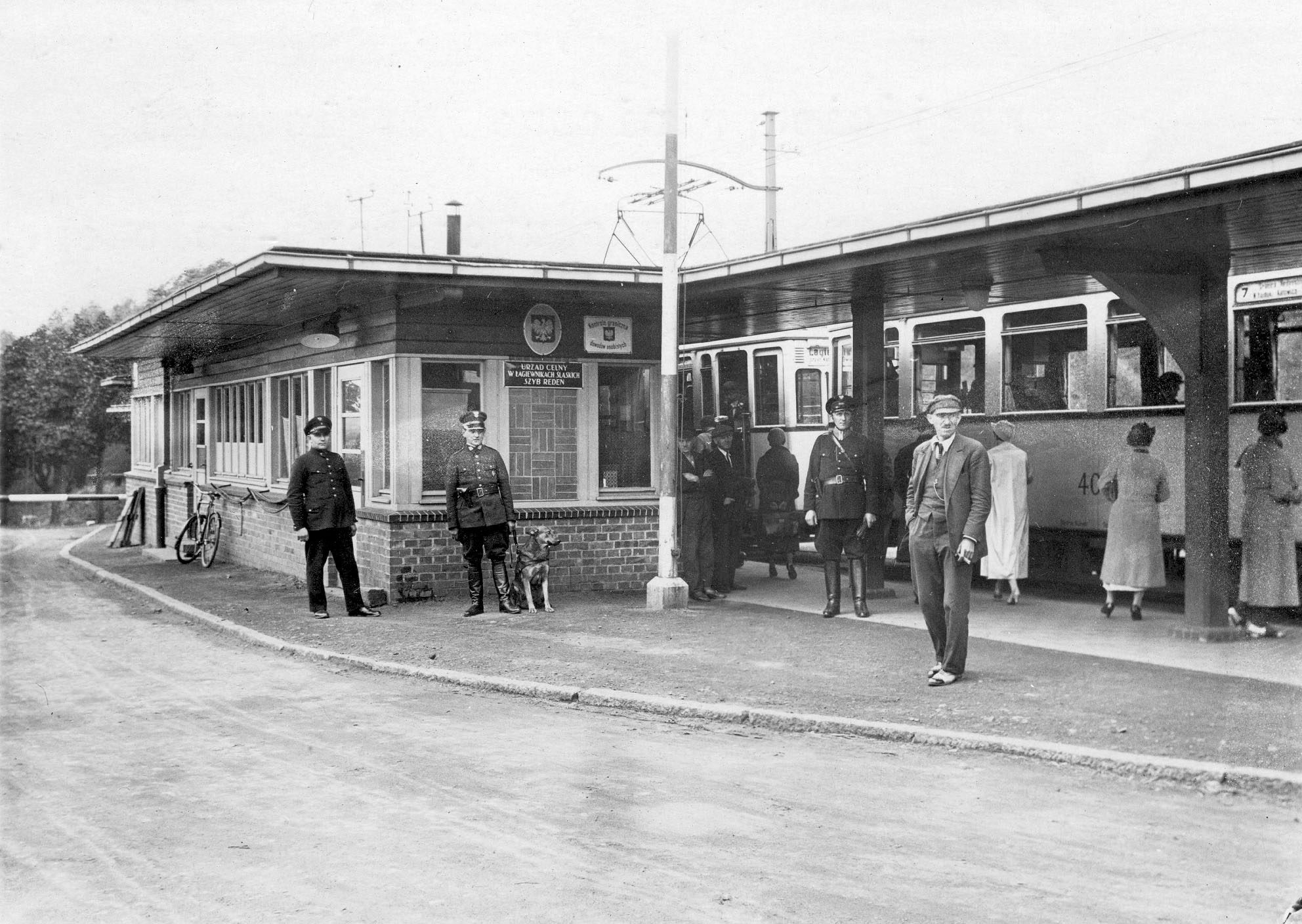 The non-existent border checkpoint and customs point Szyb Reden (Reden shaft) in Łagiewniki Śląskie (now part of Bytom), Poland, 1932.